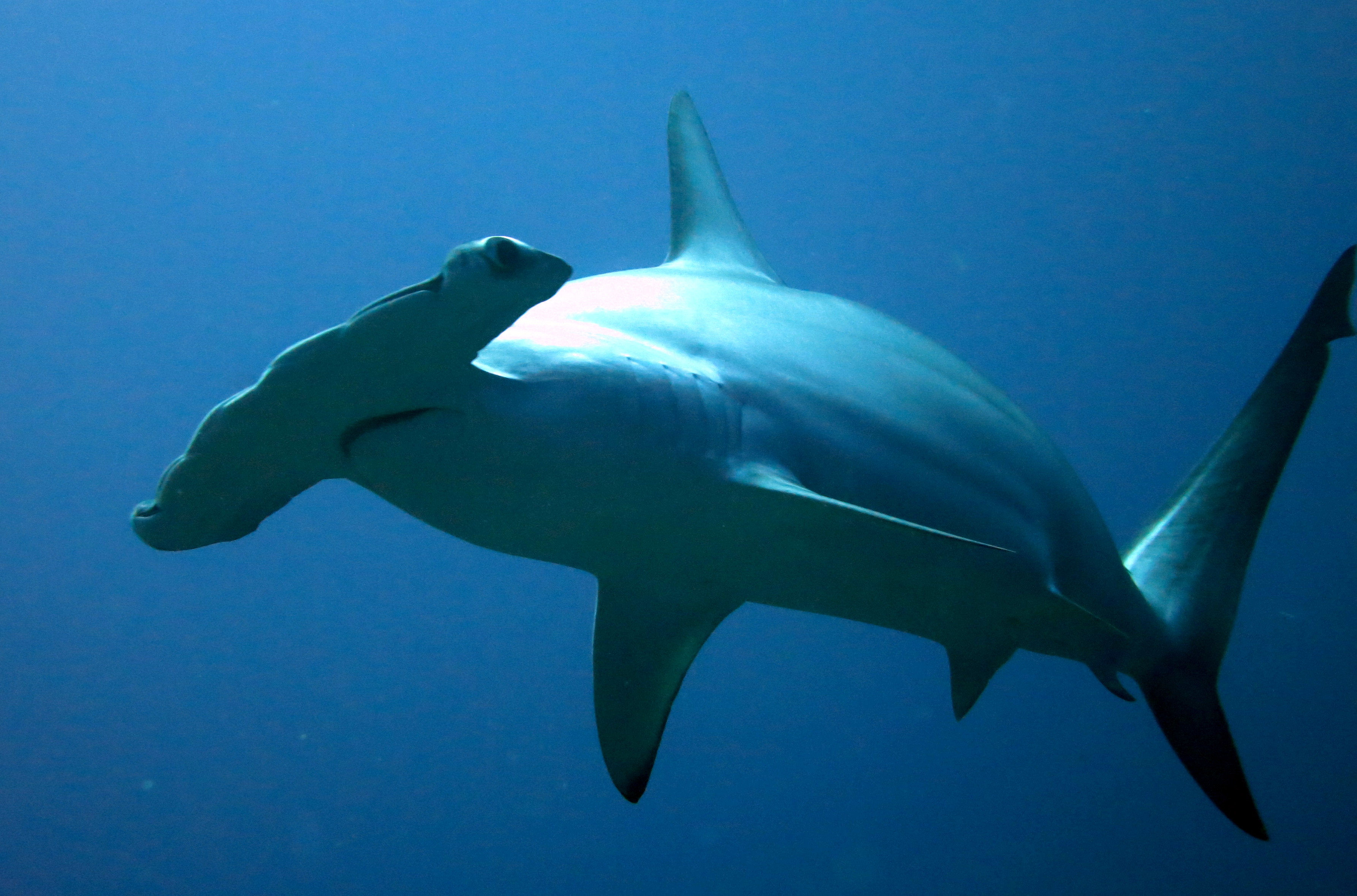 Scalloped hammerhead shark (Sphyrna lewini) Image ID: corl0185, NOAA's Coral Kingdom Collection Location: Pacific Remote Islands, Jarvis Island Photo Date: 2015 Photographer: Kevin Lino NOAA/NMFS/PIFSC/ESD